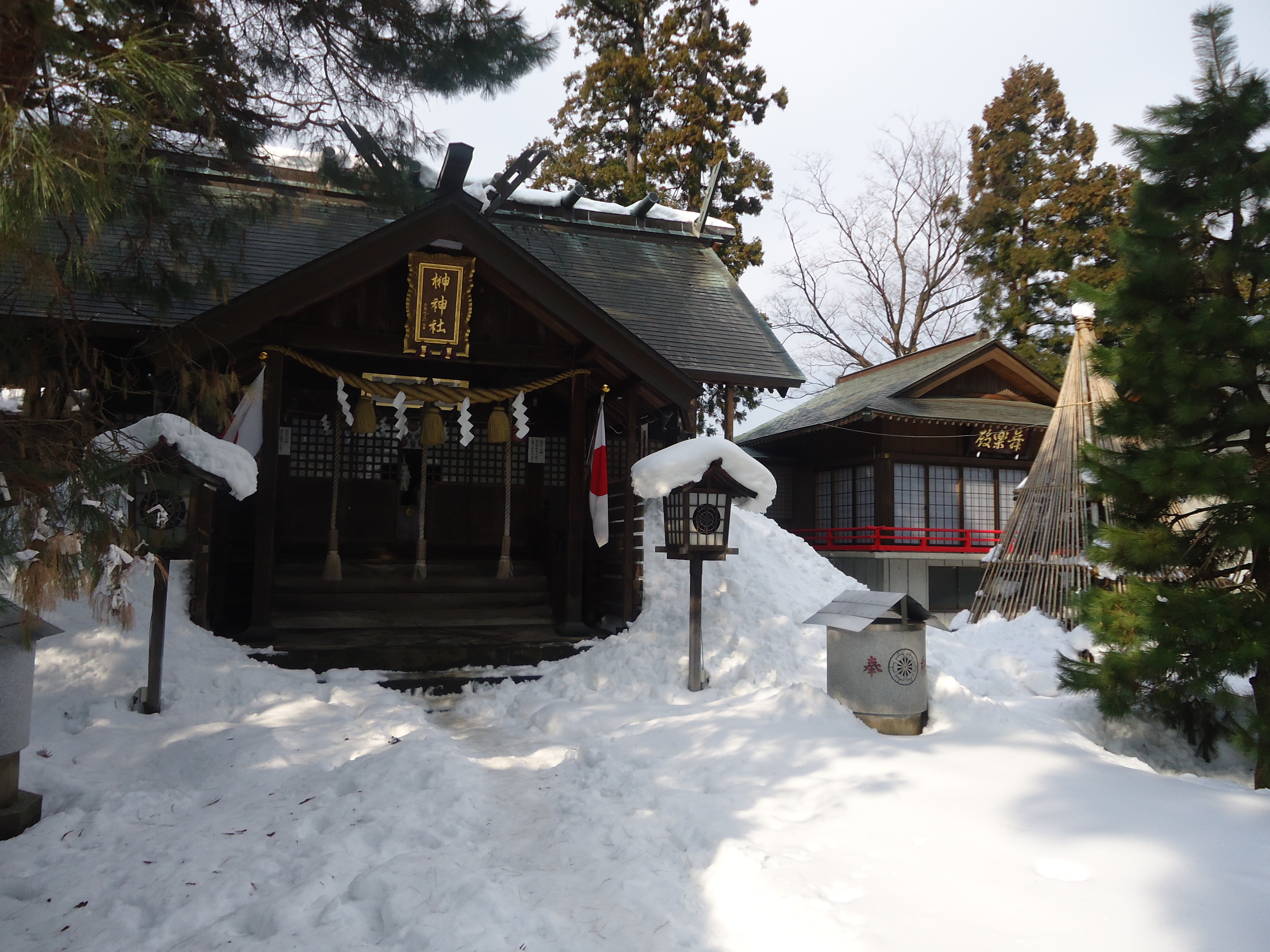 Sakaki Shrine surrounded by snow in Takada